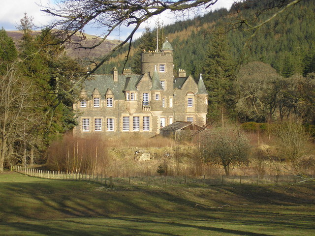 Peel House